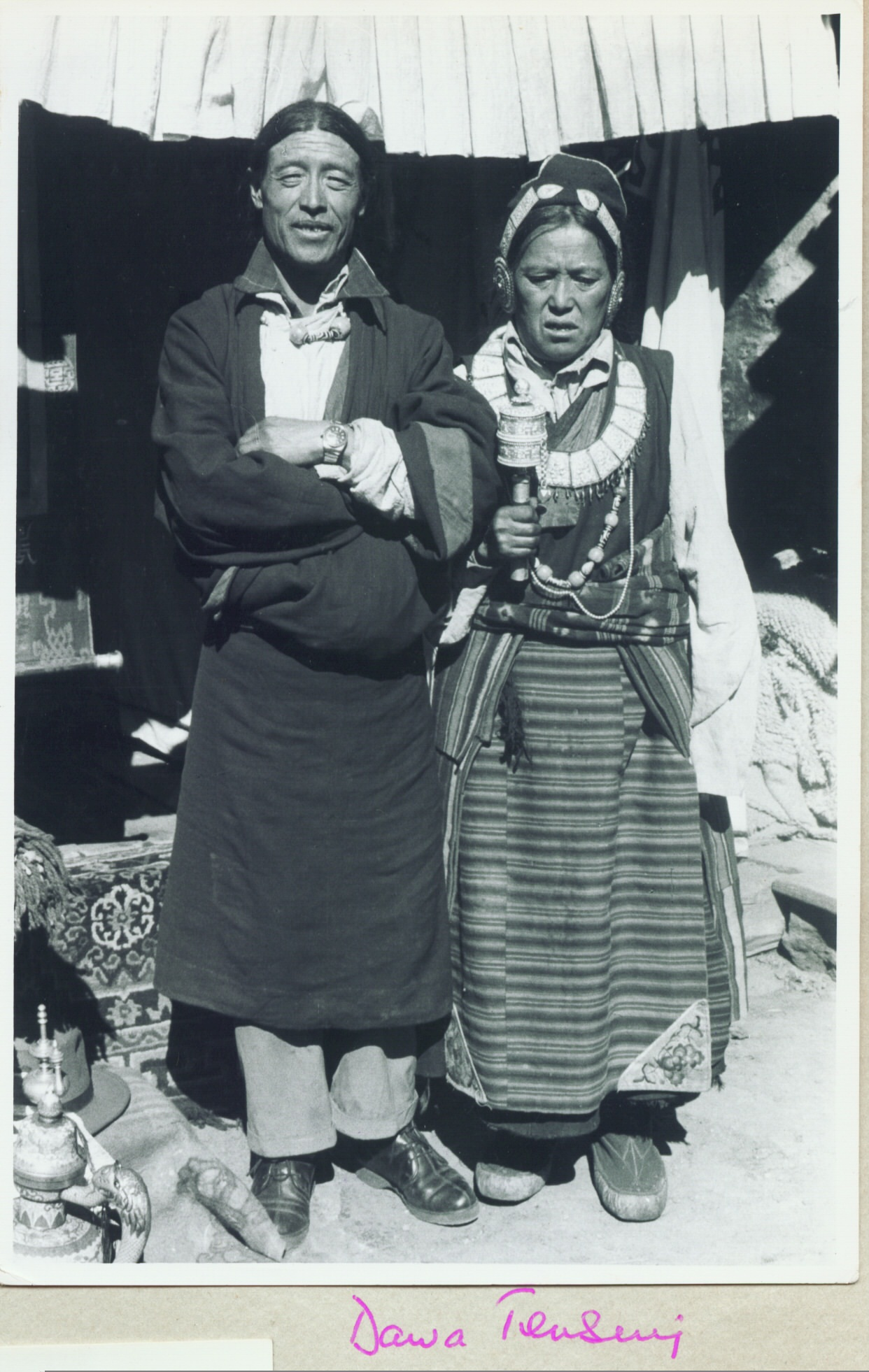 Dawa Tenzing and wife (?). Photo from the collection of John Henderson. Circa 1950 This is probably the same Dawa Tenzing as featured in this article Photograph uploaded by Dirk Pons, grandson of John Henderson. John was a tea planter in Darjeeling, and his wife Jill the secretary of the mountain club, so involved with the sherpas and the provisioning of the various climbs.